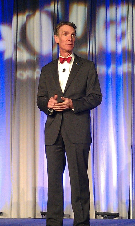 Bill Nye giving a lecture at Ohio State University on May 21, 2012.